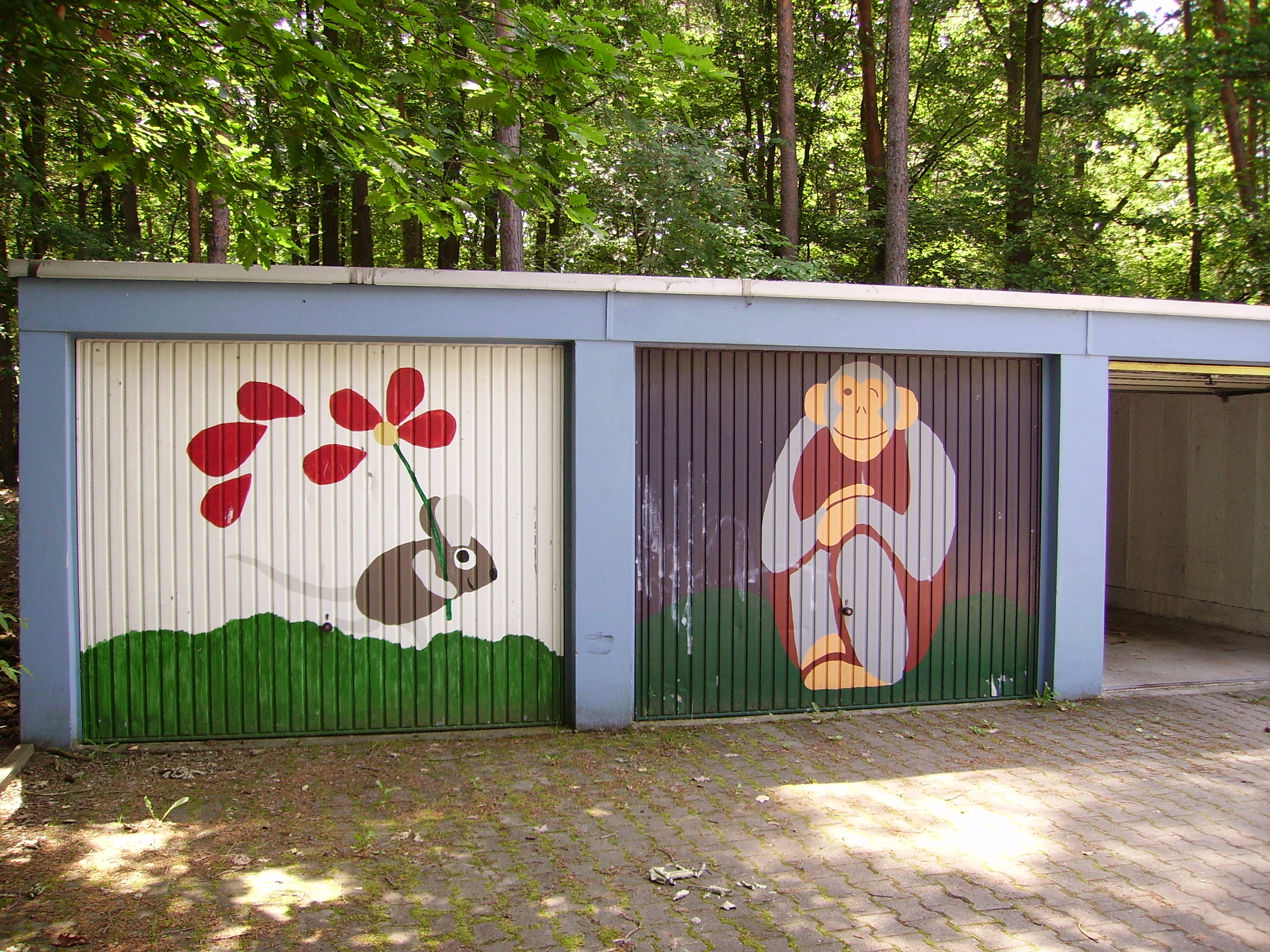 sights of Eisenberg in the Palatinate, Germany